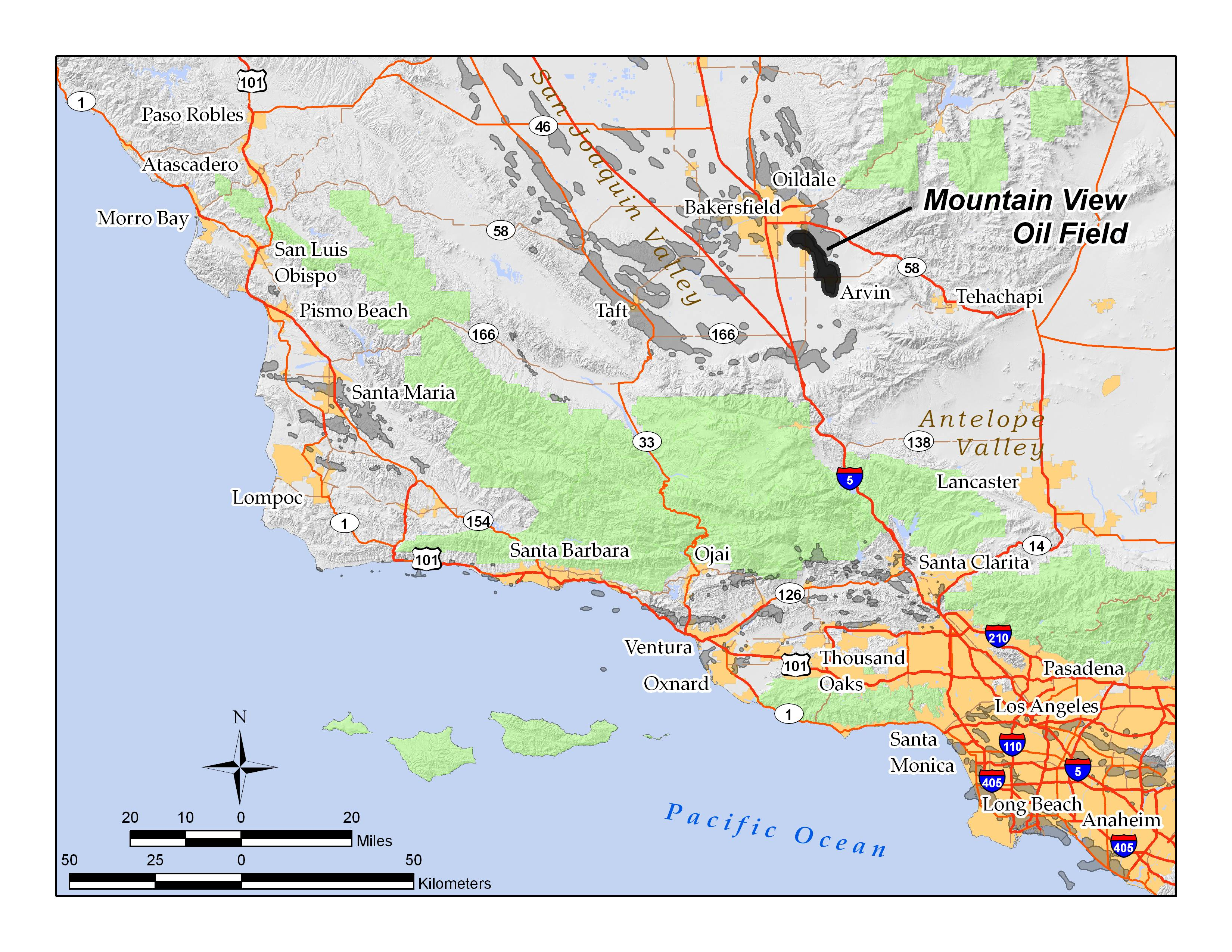 Location of Mountain View oil field in the San Joaquin Valley; by self in ArcGIS 9.3; layers in public domain; this presentation GFDL/equiv